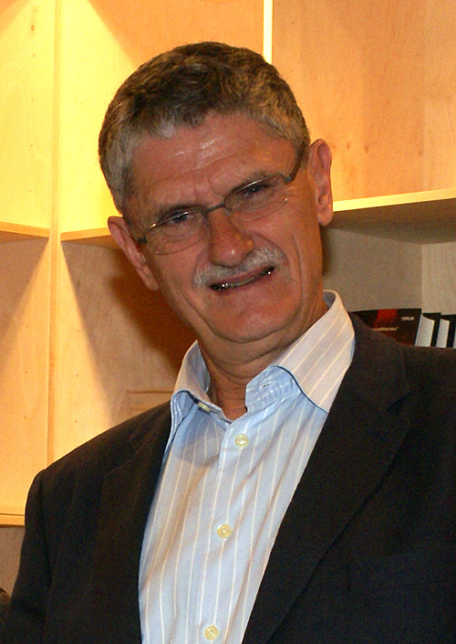 Mogens Lykketoft, Danish politician and former group leader of The Social Democrats in Denmark.